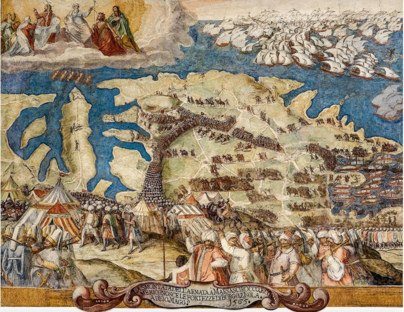 The disembarkment of turks in Marsaxlokk Harbour.